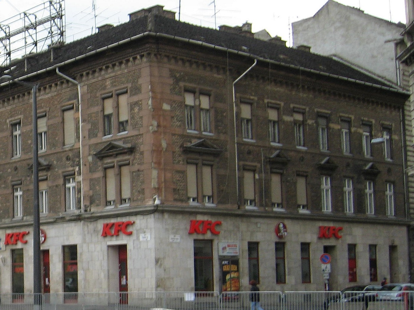 KFC Keleti. - Budapest, VII. Thököly út 6, on the corner of Thököly út and Nefelejcs utca, near Keleti Train Station